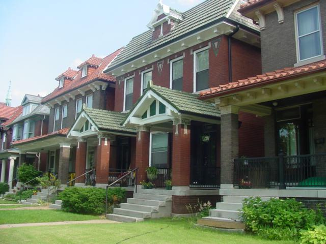 Homes in the Skinker DeBaliviere neighborhood